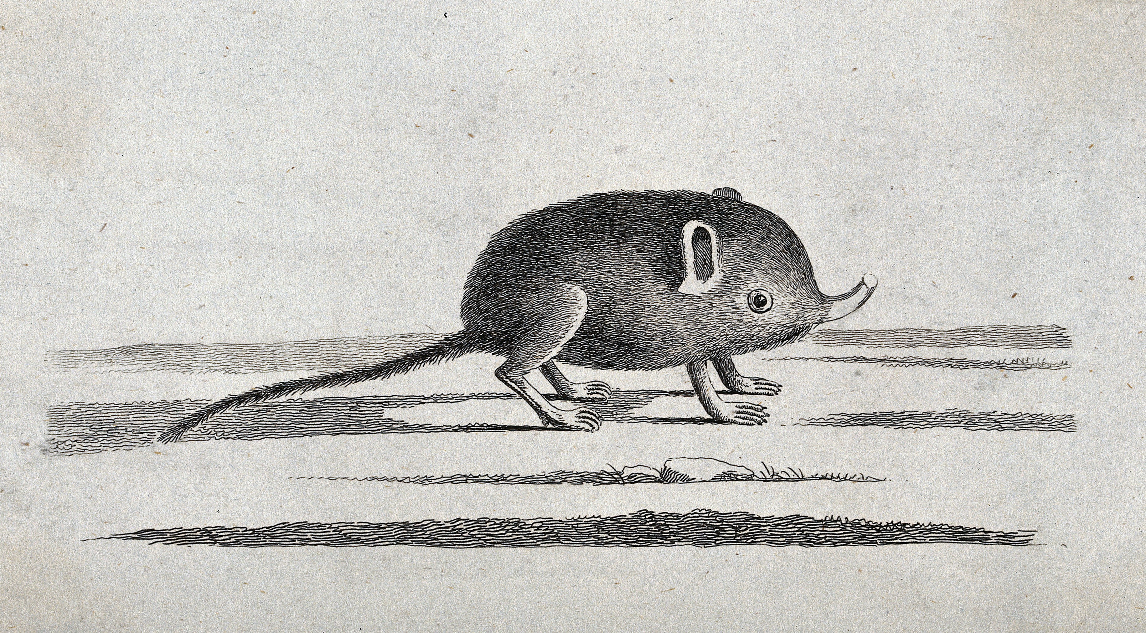 An elephant shrew with a small proboscis. Etching. Iconographic Collections